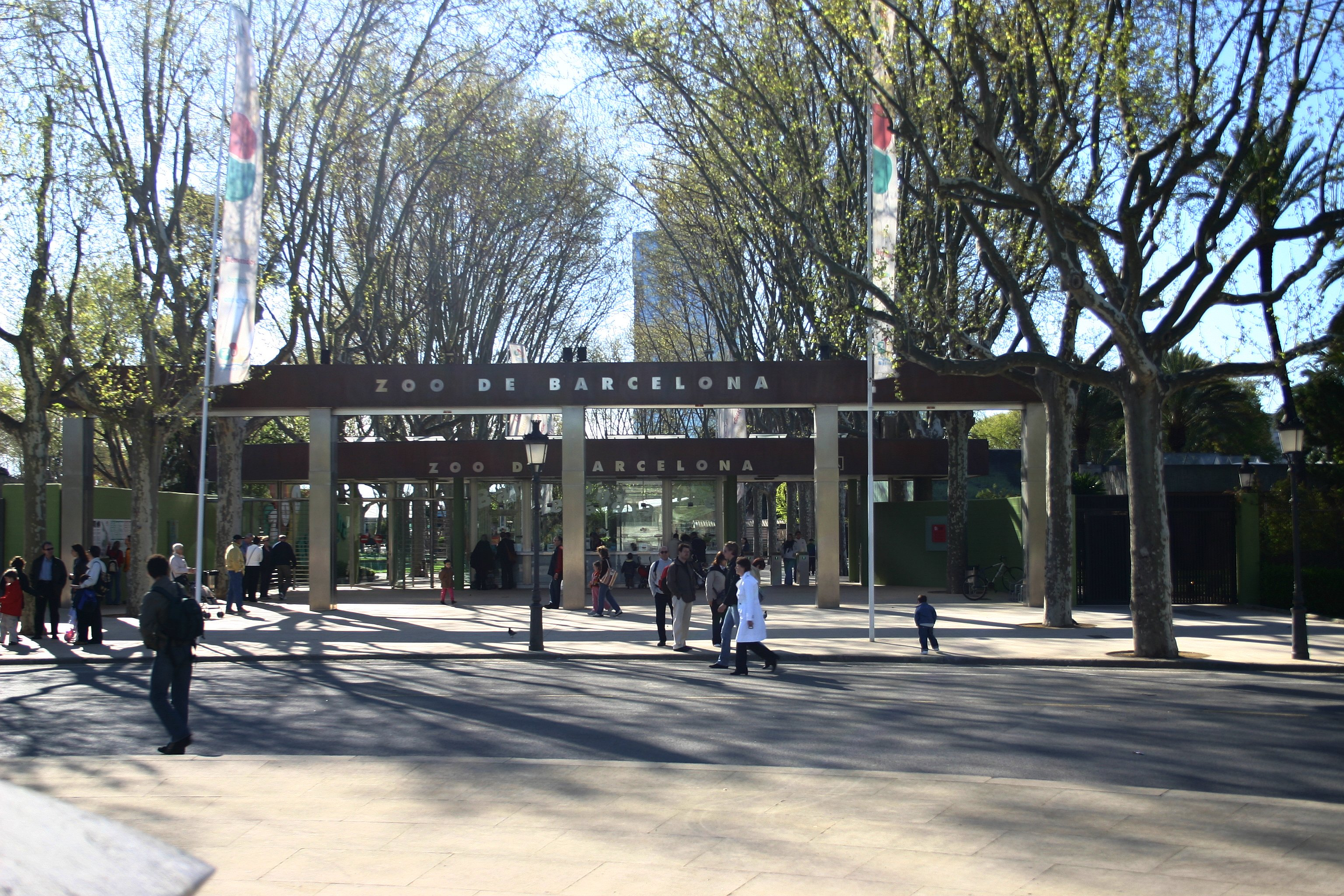 Zoo, Barcelona